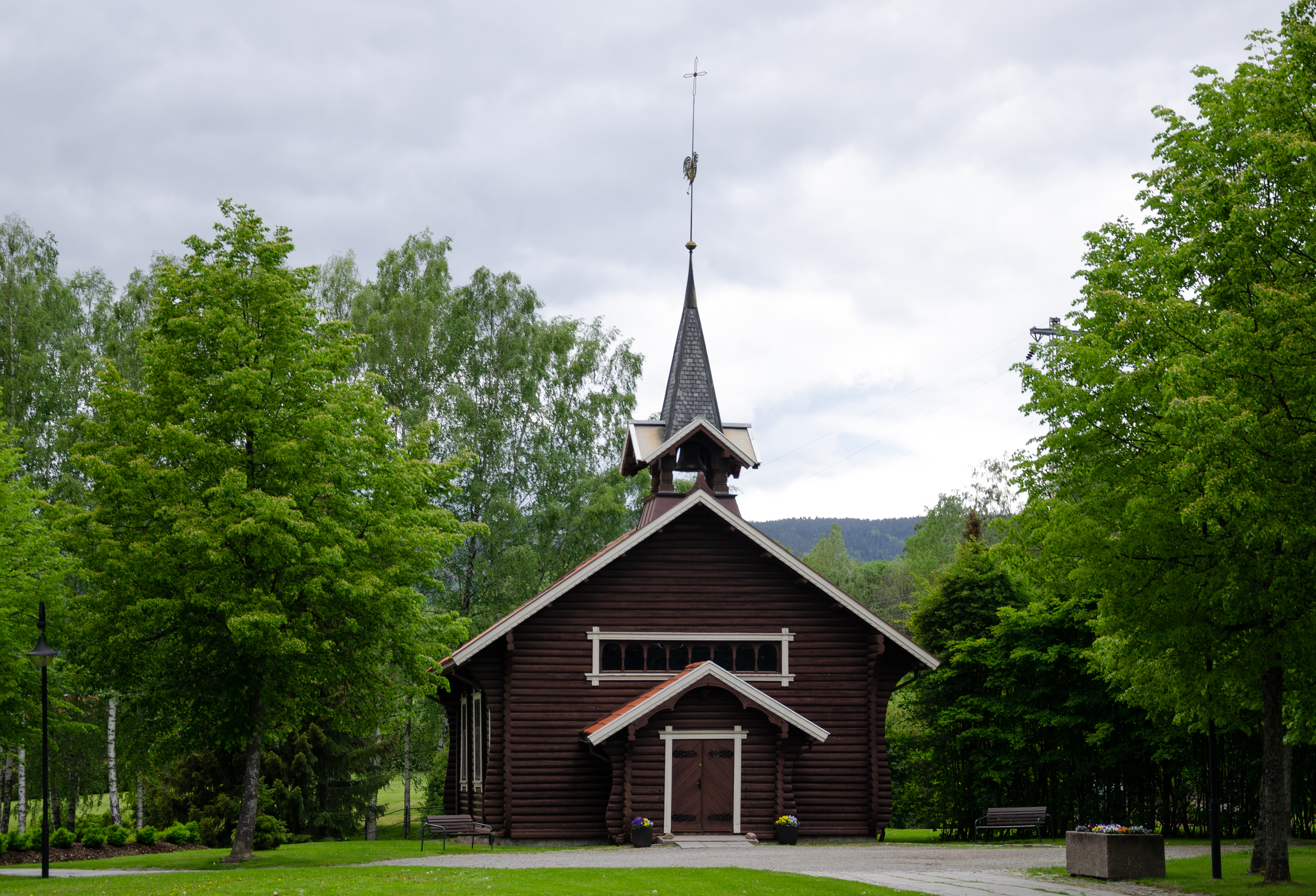 Åssiden chapel, built in 1899 to serve as a Catholic church, now a seremonial chapel at the cemetery.